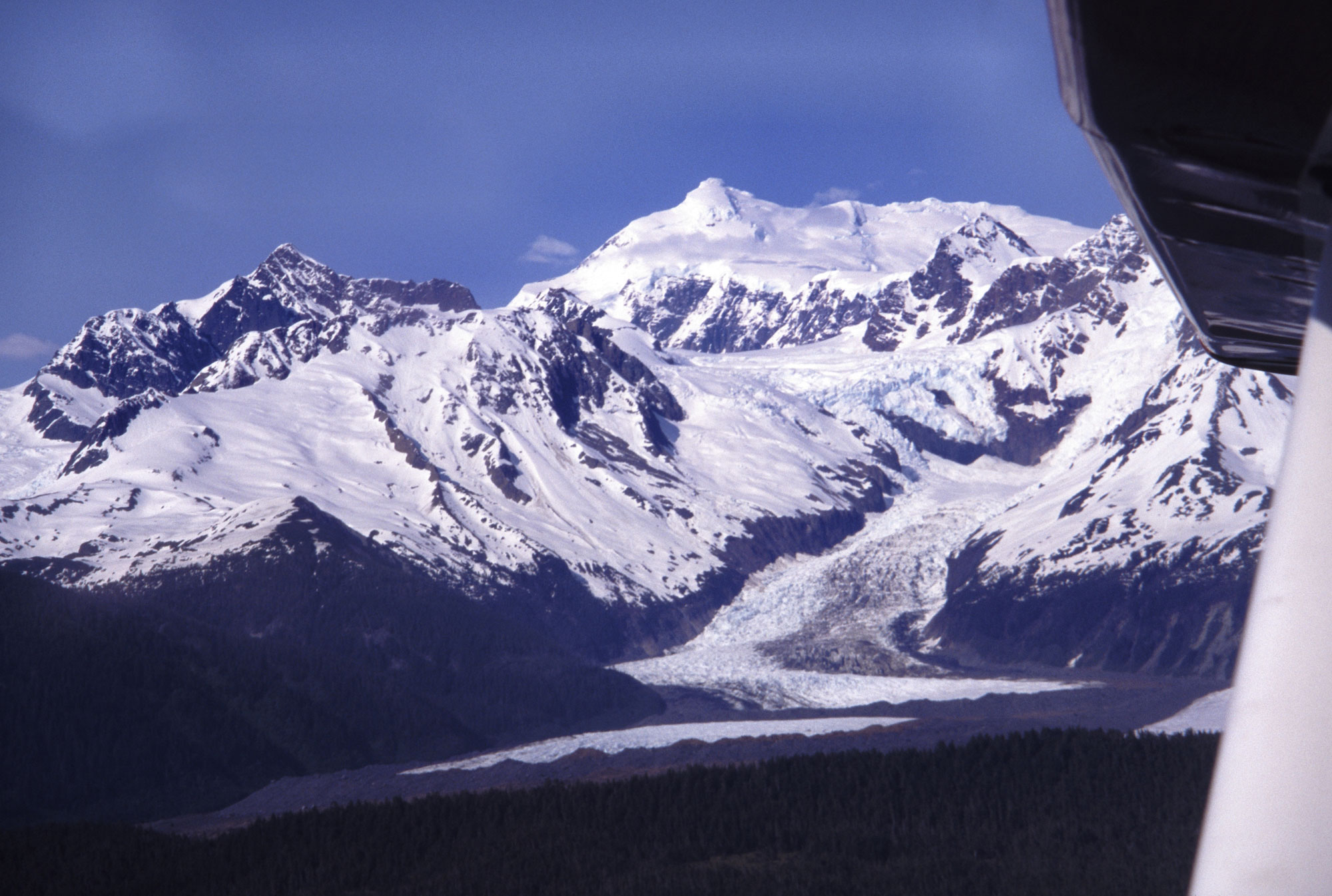 A view of Mt. Crillon in SE Alaska taken from a light plane, to the west.